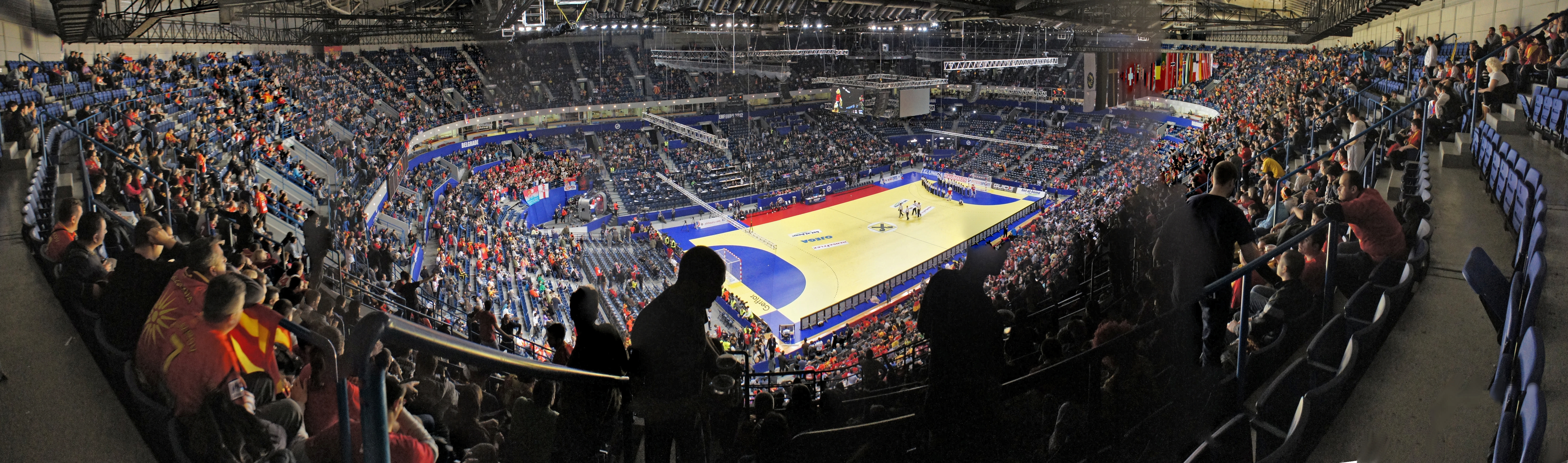 Belgrade Arena, view from the top seats. 2012 European Men's Handball Championship.